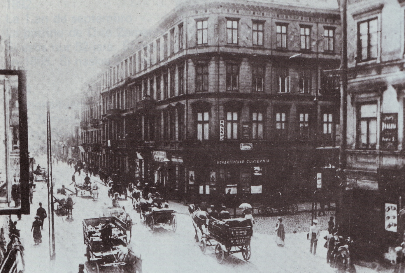 Ul. Dzika in Warsaw, Poland. Ca. 1900. The street later was named ul. Zamenhofa.